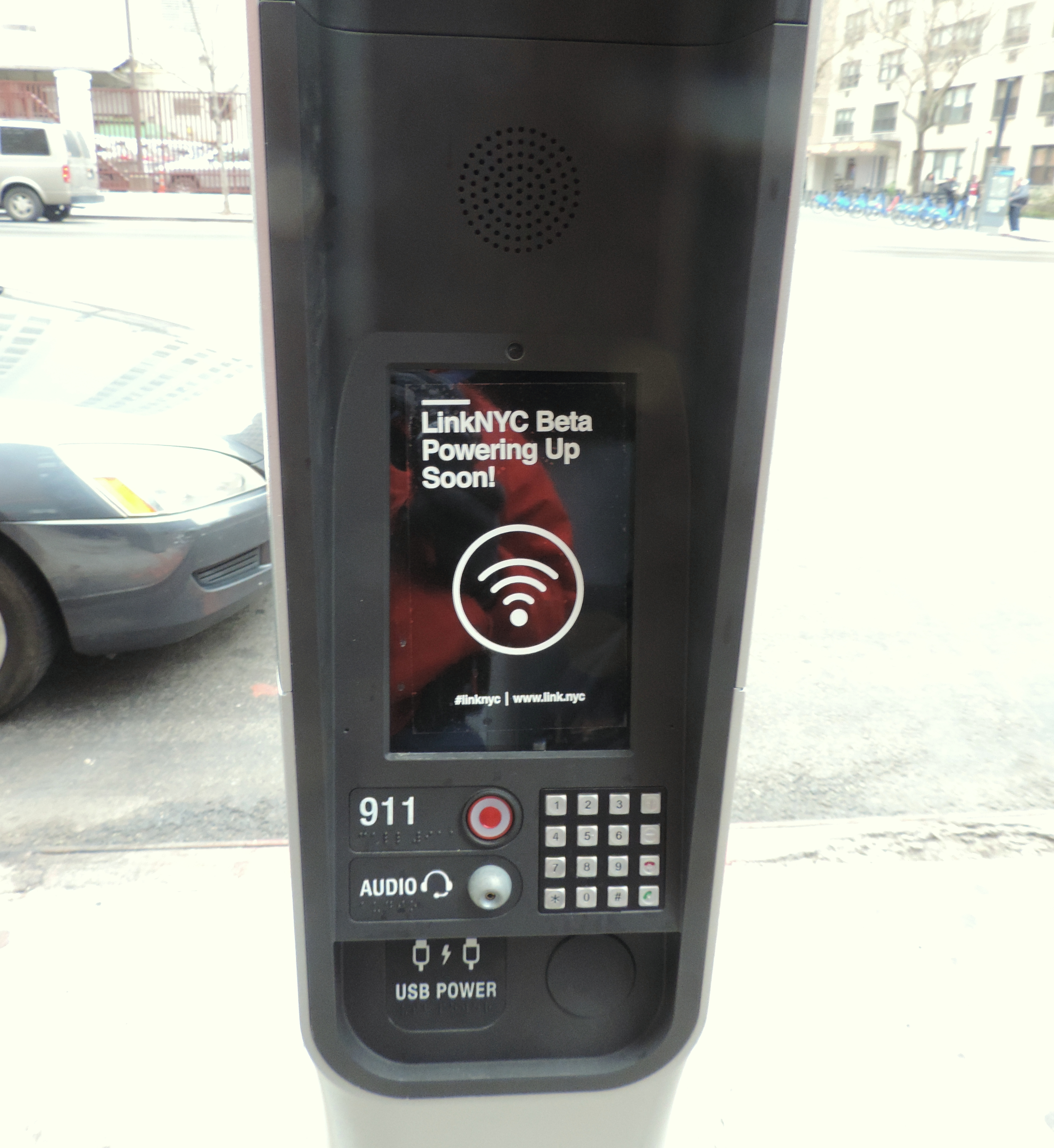 Looking northwest from sidewalk at 3rd Avenue & 15th Street LinkNYC keyboard.